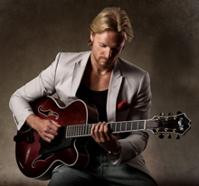 Publicity shot of Andreas Öberg, previously published in Fuzz (guitar magazine).